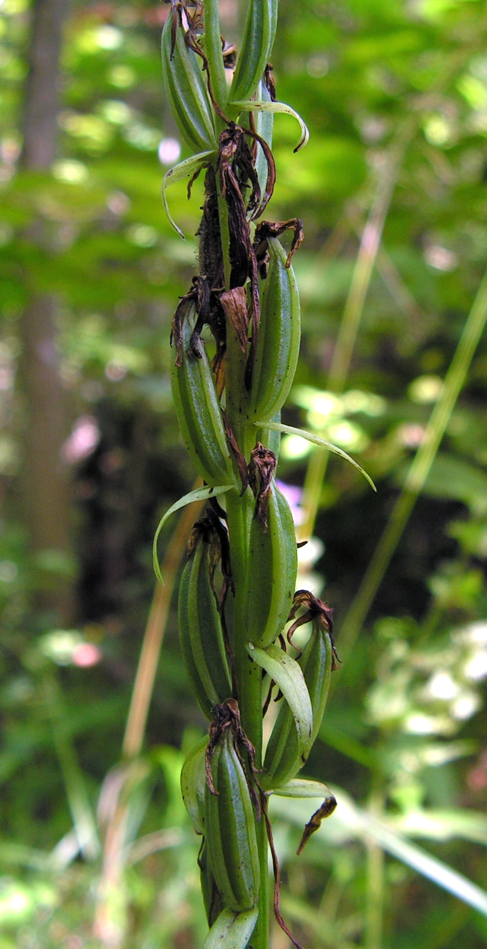 Fruits of Platanthera bifolia. Moscow region, Russia.